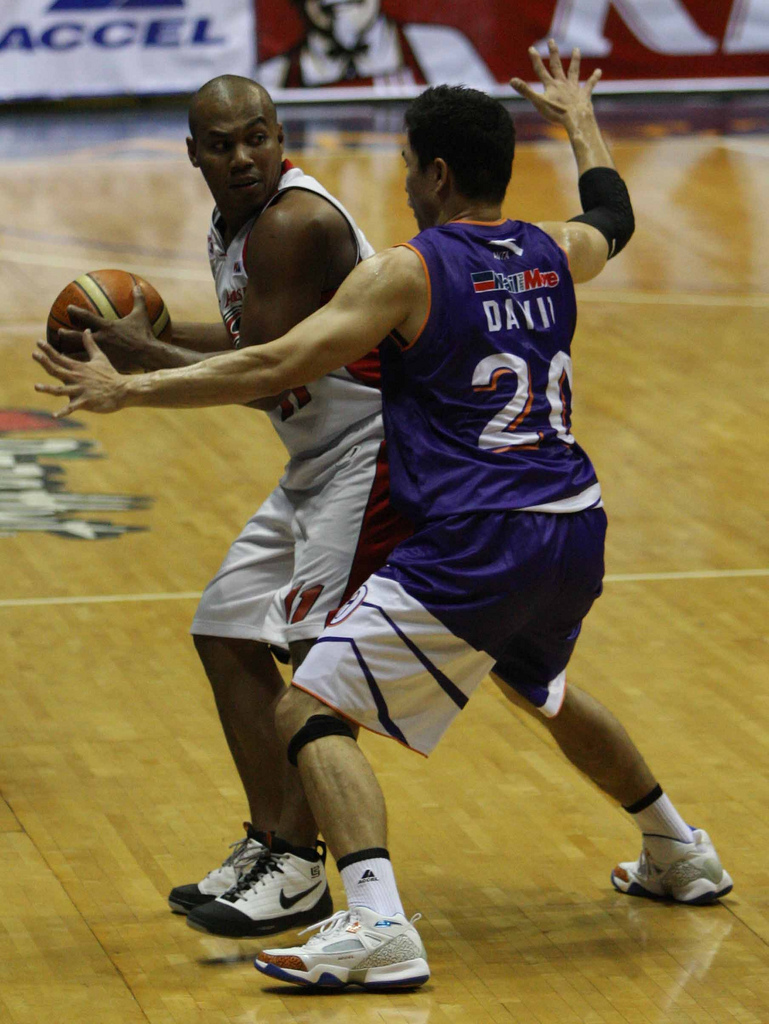 Alaska's Willie Miller being defended by Air21's Gary David